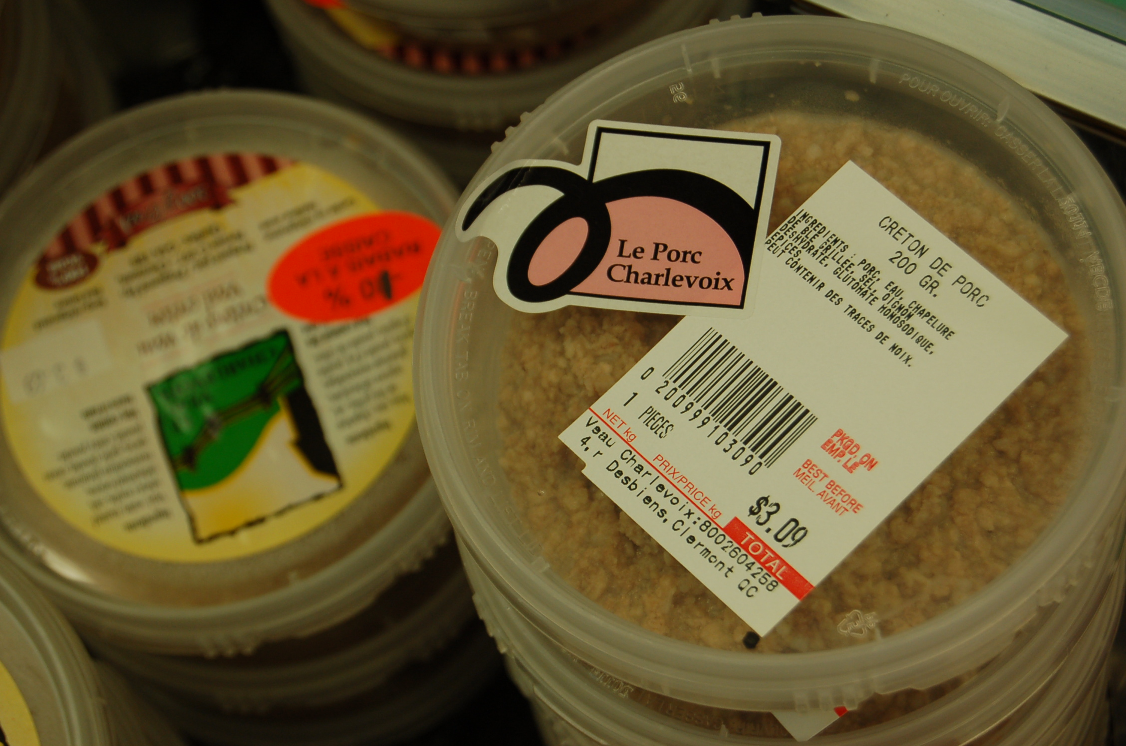 Creton is a pork spread containing onions and spices. Due to its fatty texture and taste, it resembles French rillettes. Cretons are usually served on toast as part of a traditional Quebec breakfast.